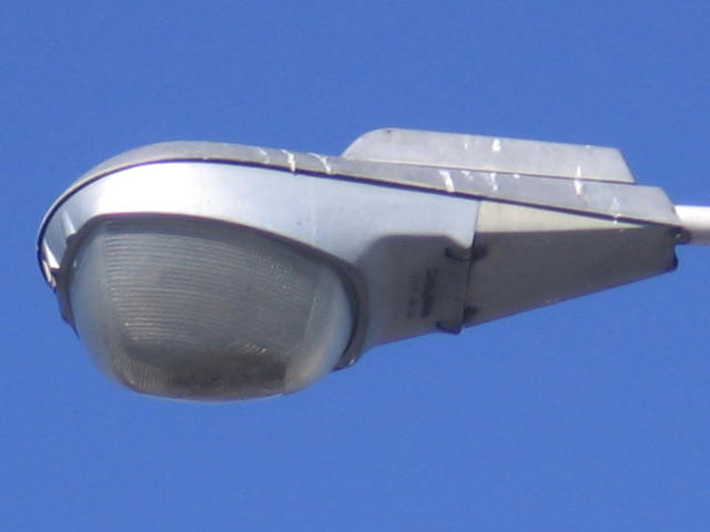 History of street lighting